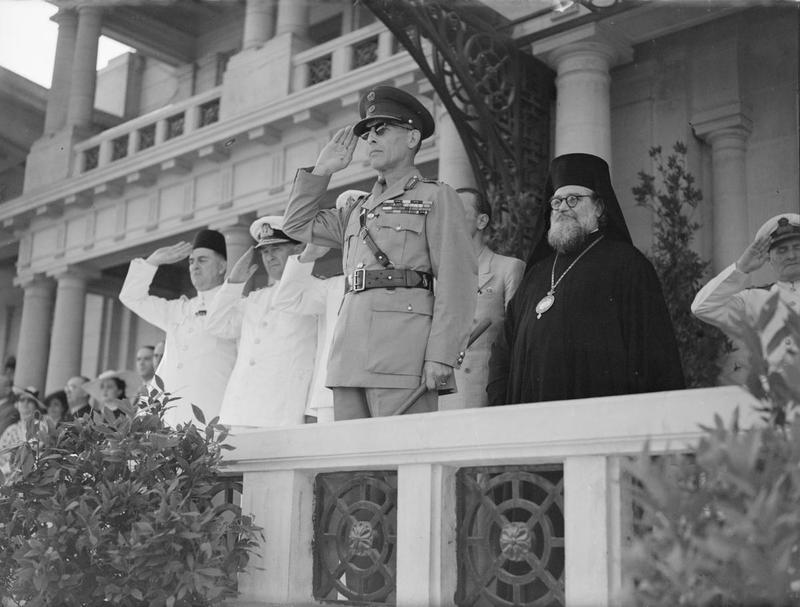 The Greek Government in Exile during the Second World War King George of the Hellenes taking the salute during the playing of the National Anthem at a military parade in Alexandria. Left (saluting) is Baker Pasha and next to him, Admiral Sir Henry Harwood. Second from right is Christoforos, Greek Orthodox Patriarch for Africa.